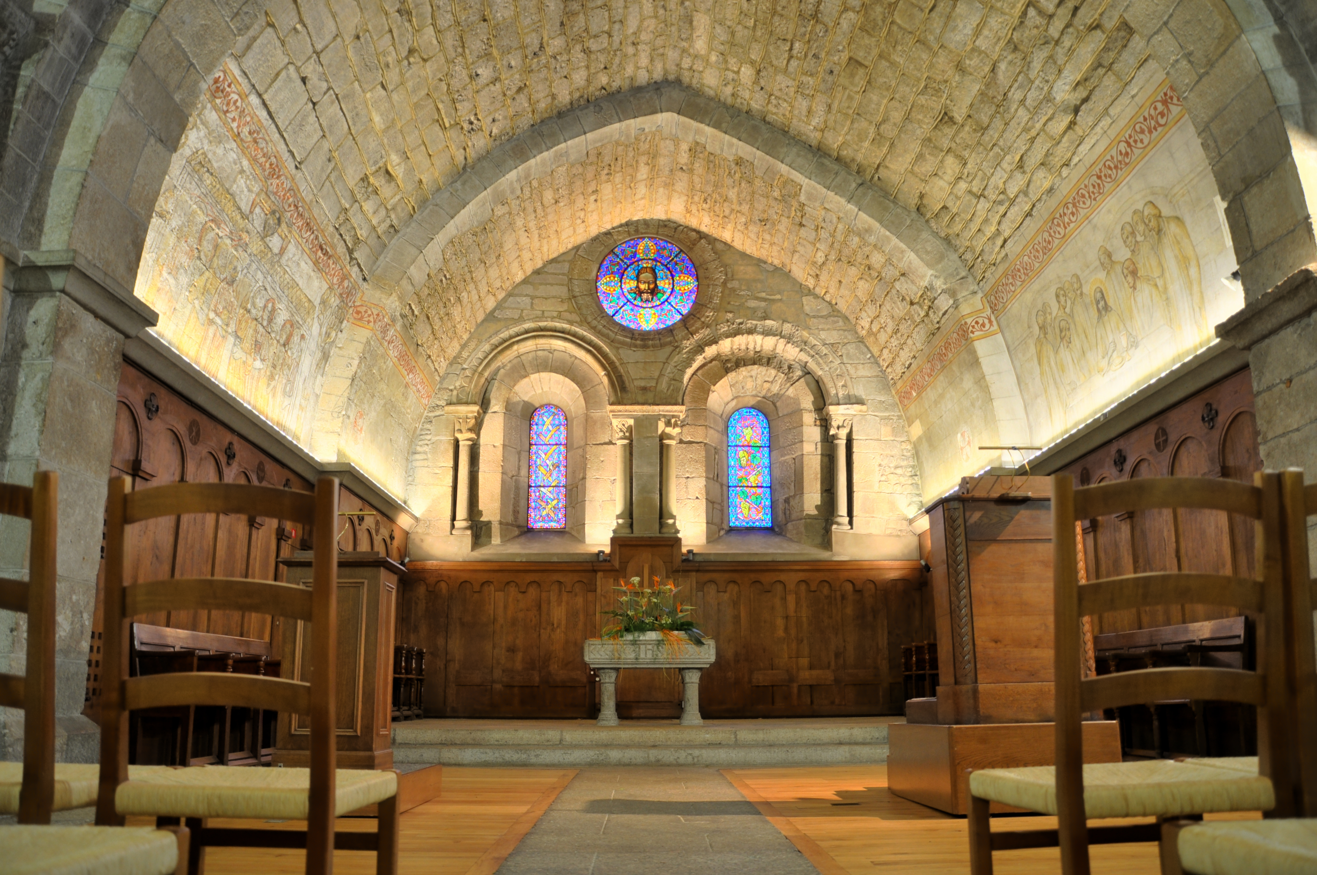 Interior of the Temple, Nyon, Vaud, Switzerland